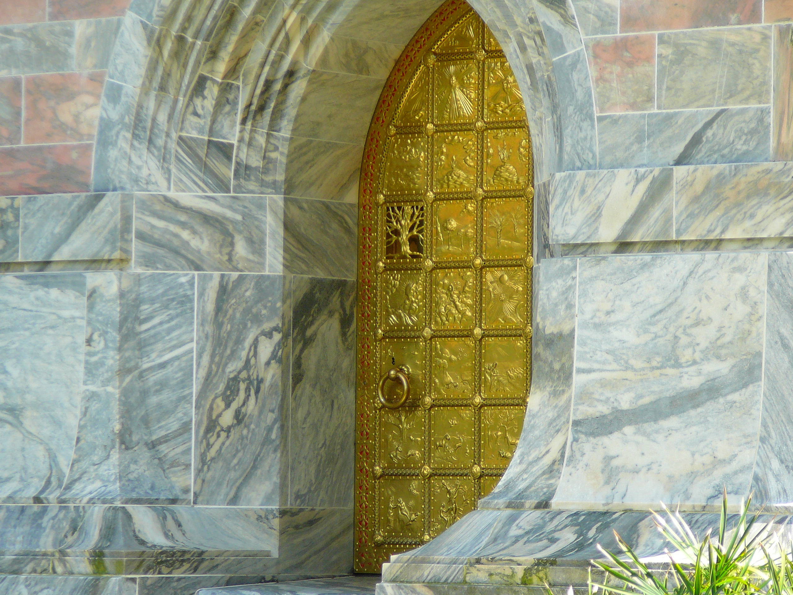 Gold door of Bok Tower in Lake Wales, Florida